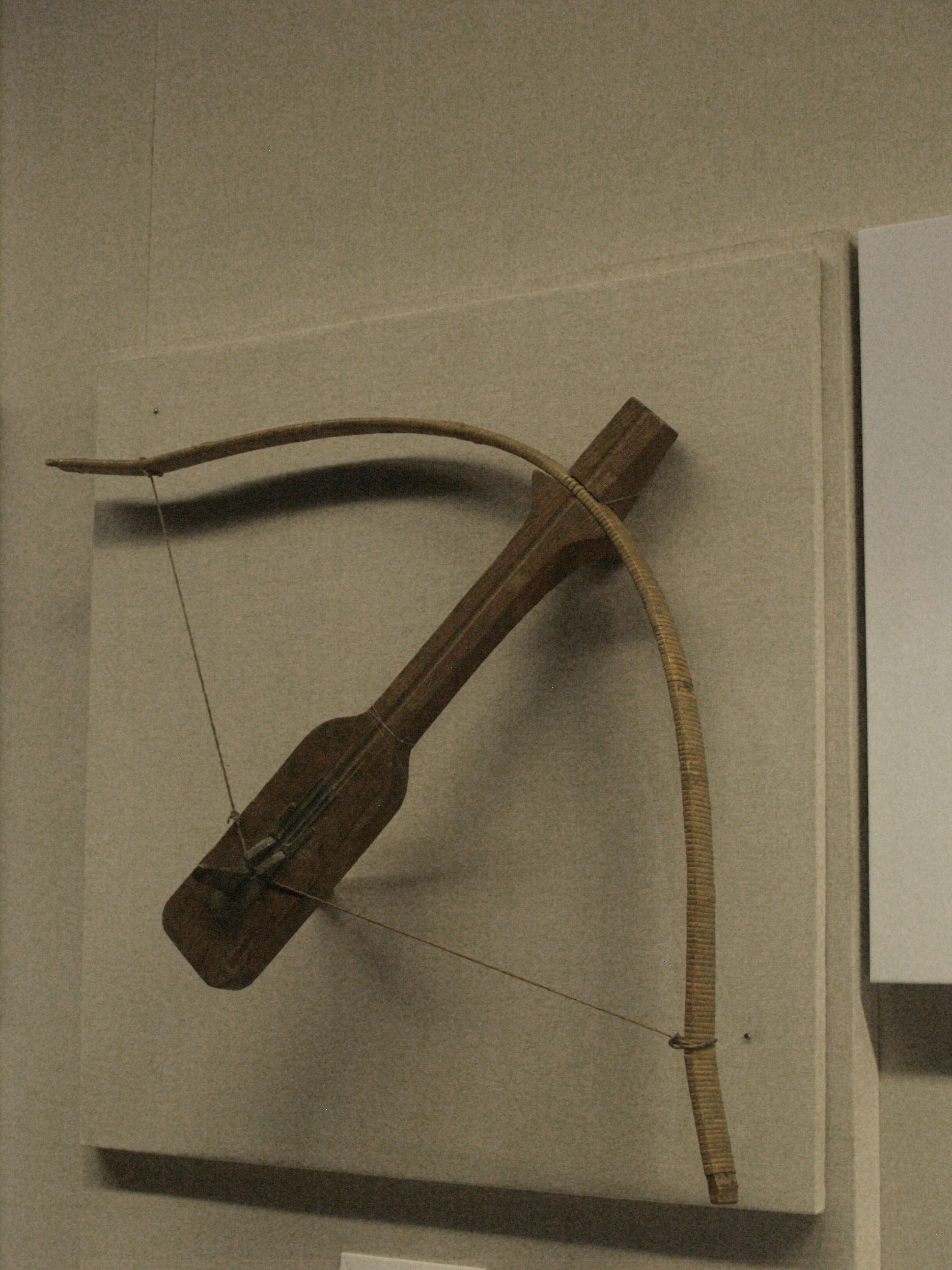 Qin crossbow trigger, Shaanxi History Museum Info provided by the museum below: Crossbow Trigger Qin Dynasty (221-207BC) Excavated from Beiguan, Xi'an City